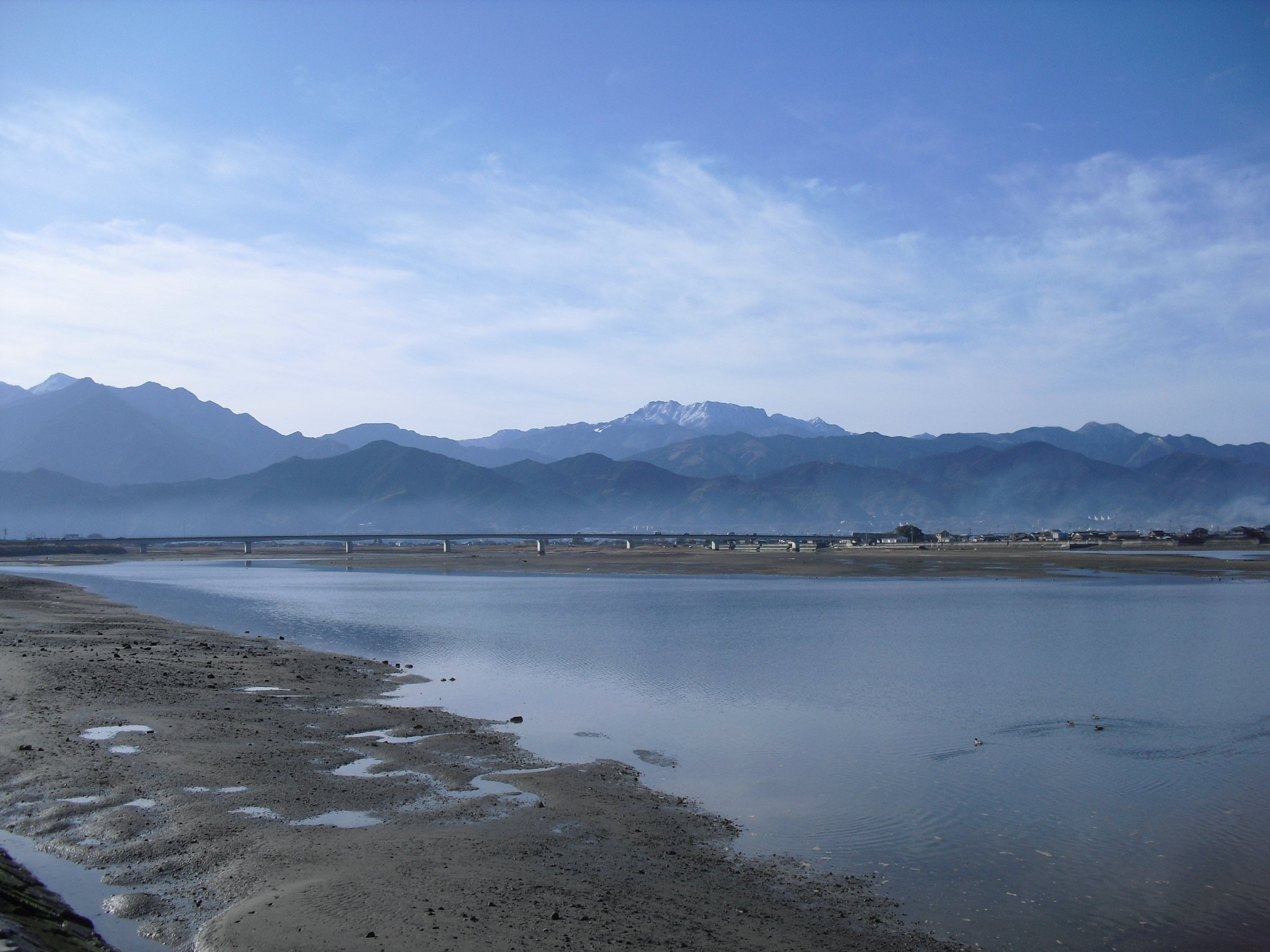 Mt.Ishidzuchi from Kamogawa river